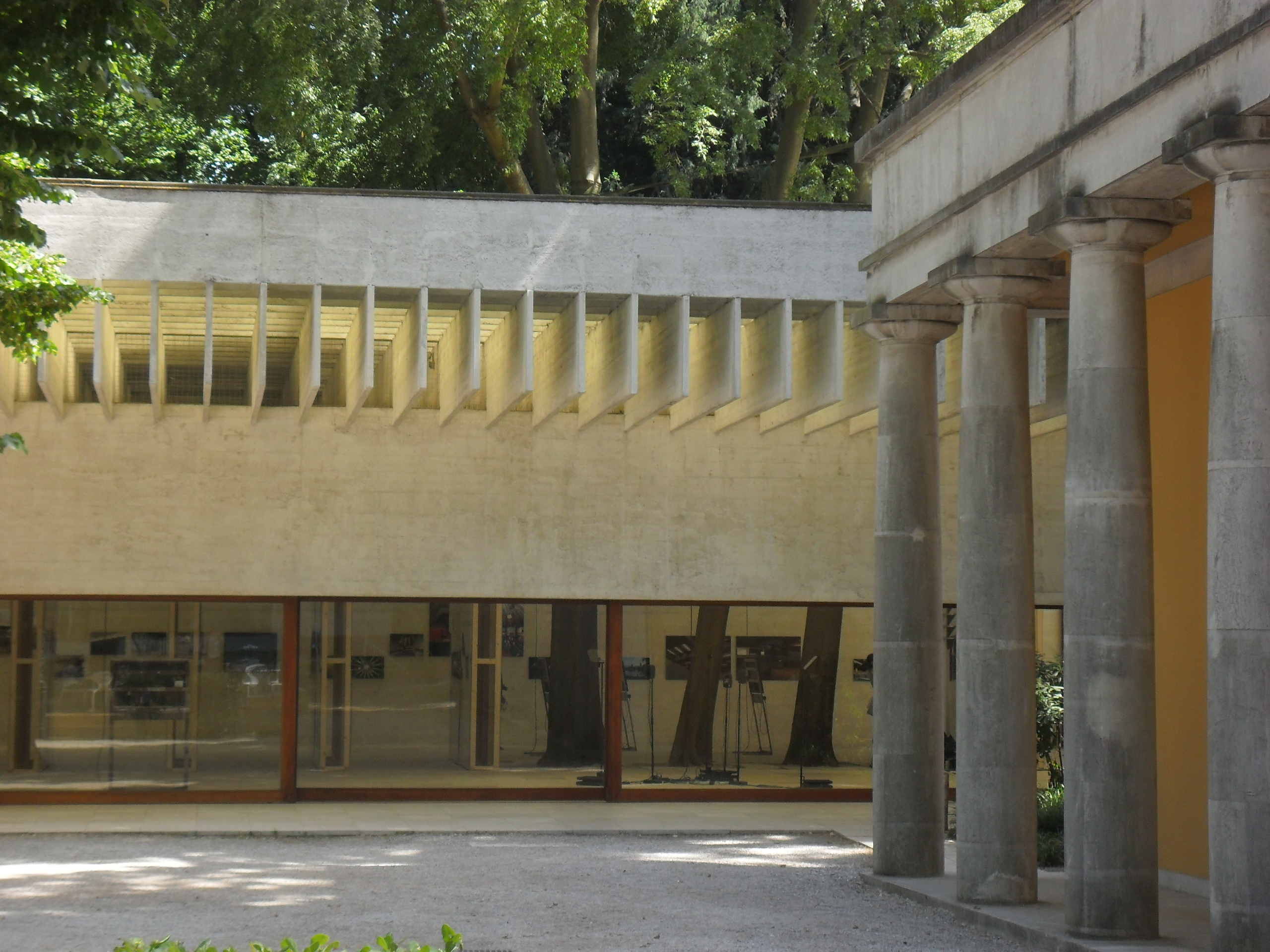 Nordic Pavilion, Biennale di Venezia, Sverre Fehn